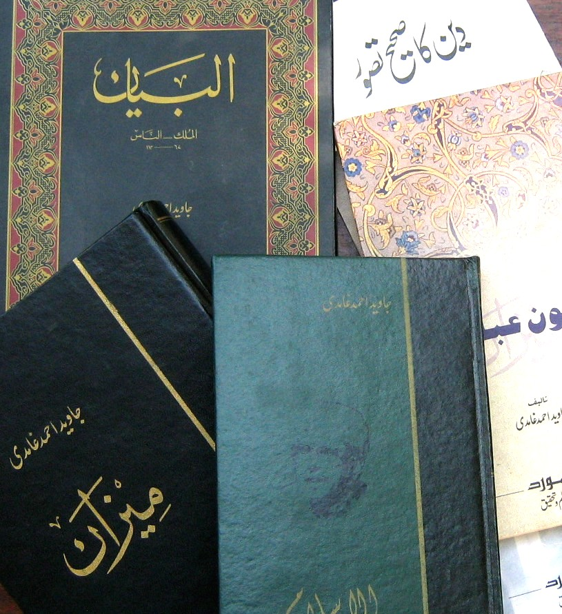 A photograph of some of the works of Javaid Ahamad Ghamidi